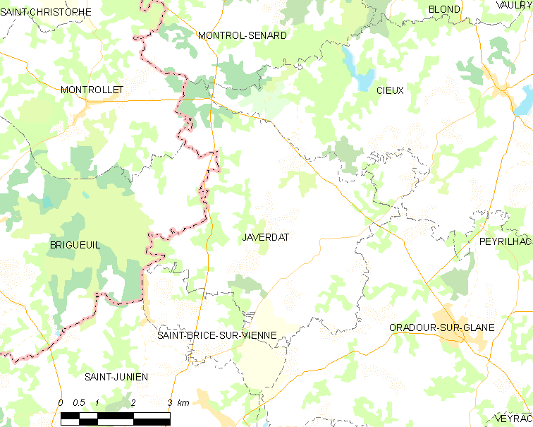 Map of French municipality Javerdat